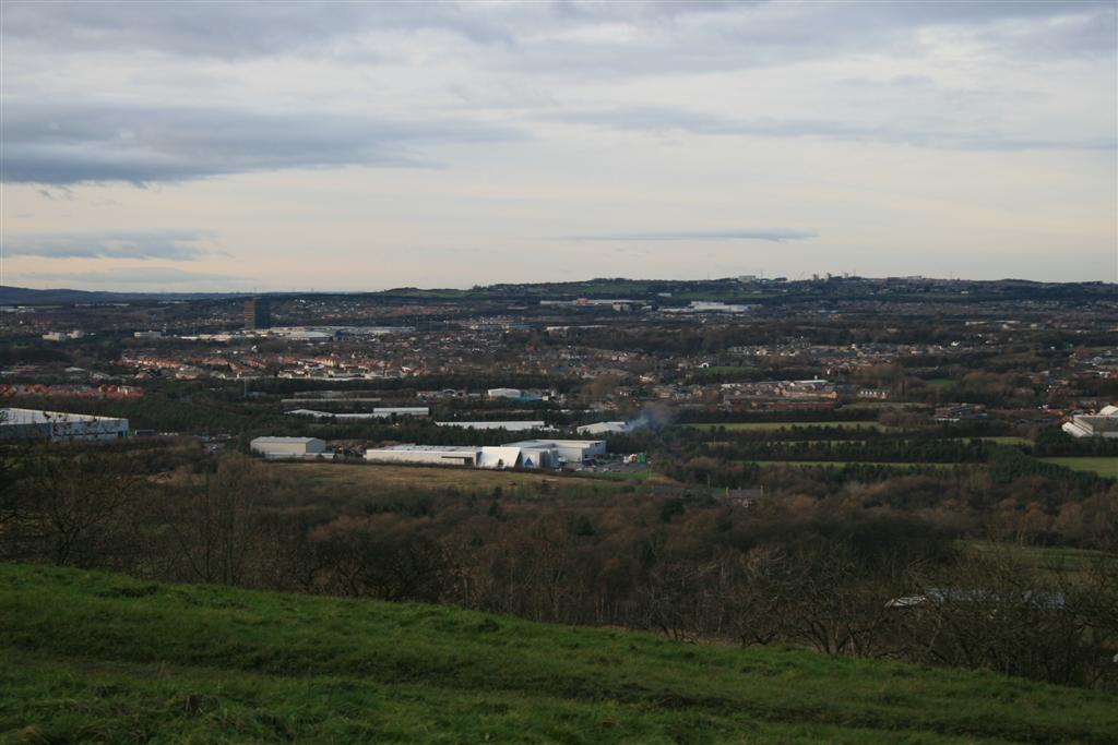 The town of Washington, Tyne & Wear, UK. Taken from Penshaw Monument.